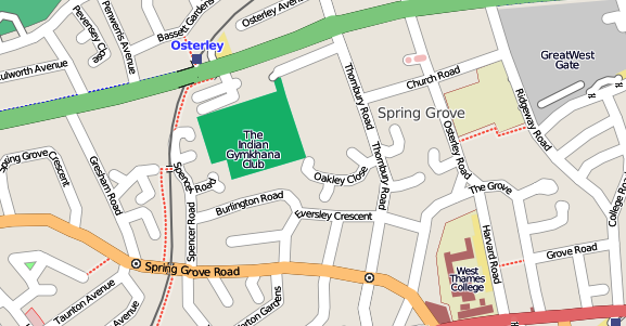 Street map of Spring Grove district of London